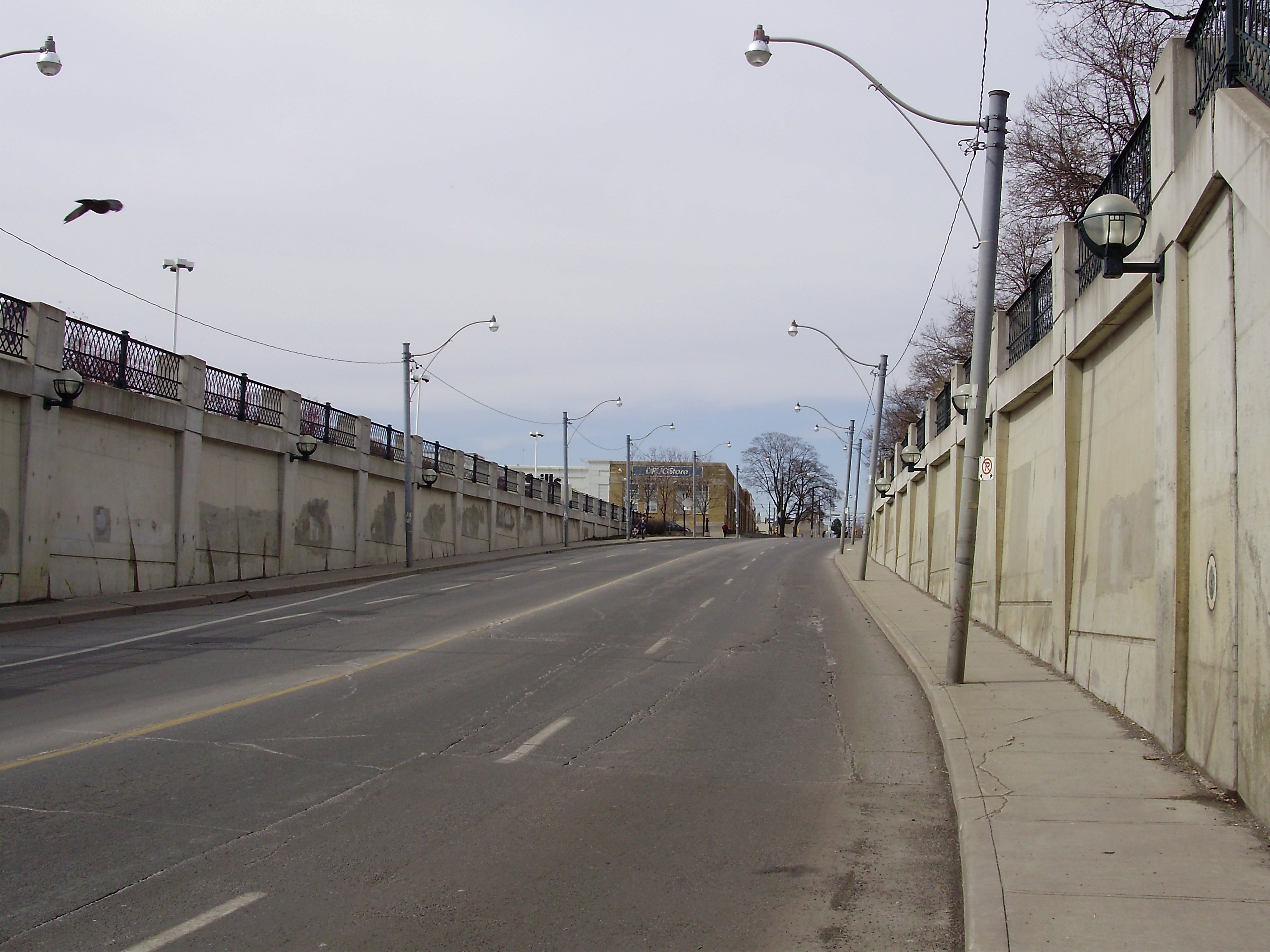 Looking north along Lansdowne Avenue from within the Lansdowne Avenue Railway Underpass, just south of its intersection with Dundas Street West, in Toronto, Ontario, Canada.